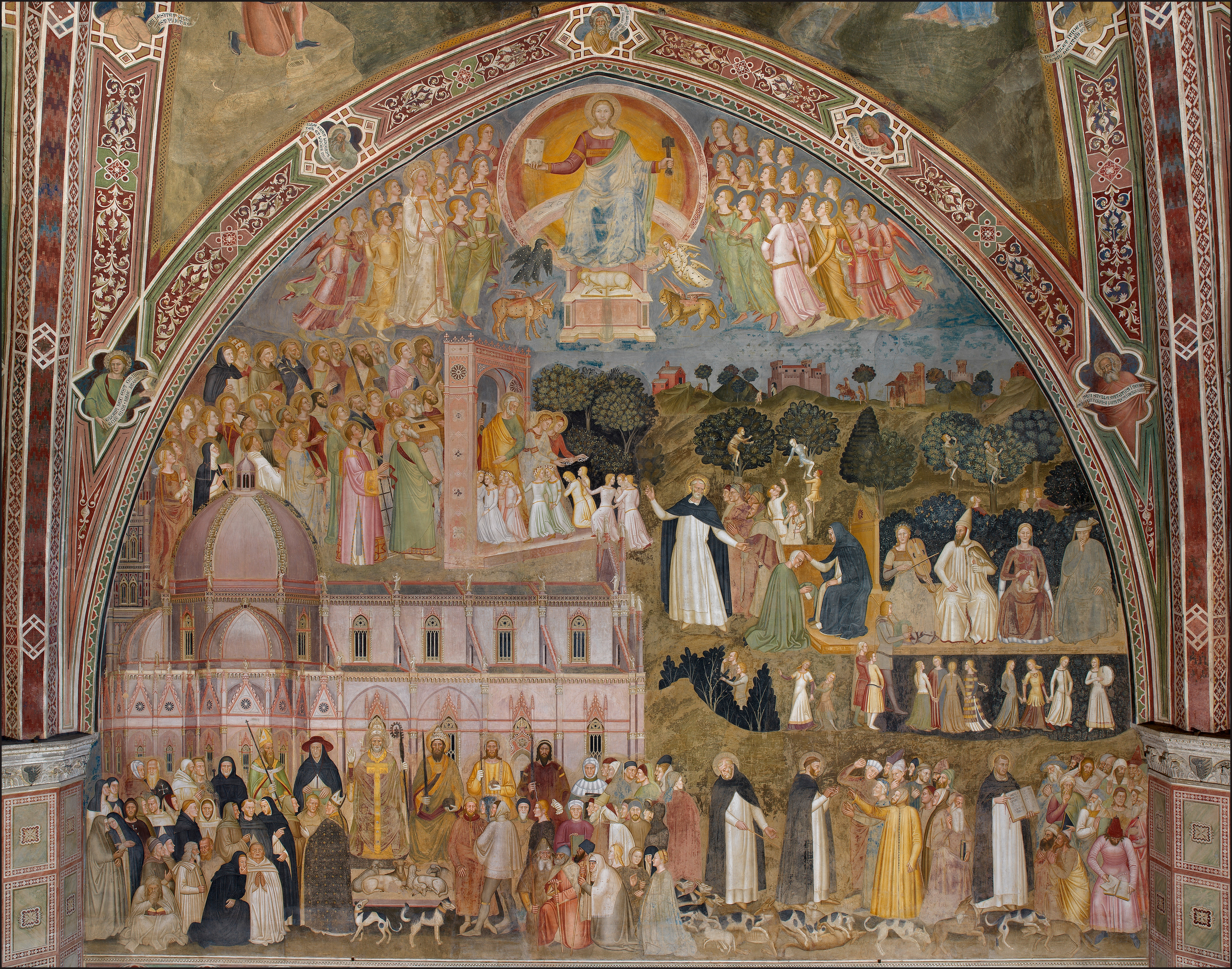 The Way of Salvation fresco is in the Spanish Chapel (Cappella Spagnuolo, or Guidalotti Chapel, after the patron) of the Spanish chapel. The black-cloaked figures are Dominican priests (the Blackfriars, the Order of Preachers, O.P.), and the black-and-white dogs are their symbol. (Founded by St. Dominic to preach against heresies, they were referred to as "domini canes", hounds of God.) In the left foreground there is a group of about five dozen figures representing Christendom, and illustrating the religious and secular hierarchies. At the center are pope and emperor, and at their feet are black-and-white dogs protecting the sheep. The secular figures range from the emperor down to beggars and cripples. Behind them is the great Florentine Duomo, representing the Church. In the right foreground are three Dominican saints. (Their identification varies among sources.) St. Peter Martyr sends the dogs to round up lost sheep and fight off wolves. St. Dominic preaches to the people while St. Thomas debates heretics. Behind the preachers, in the right middleground, there is a group of worldly pleasure-seekers (above Thomas and the heretics) and two more Dominican figures (above St. Peter and St. Dominic). The faithful are being blessed and ushered to the gate of Heaven, where St. Peter welcomes them. Above all is a scene of Christ in Majesty, with the emblems of the Evangelists. The overall composition, with the heretics on the right and faithful on the left, echoes many more conventional Judgment scenes.